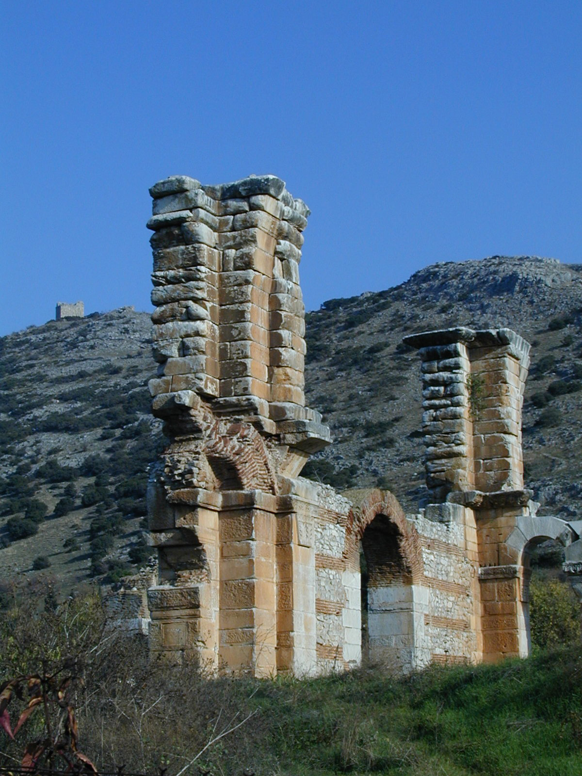 Basilica B seen from the S.-W. in the foreground, acropolis in the background. Photography taken by Marsyas on 11/12/2000.